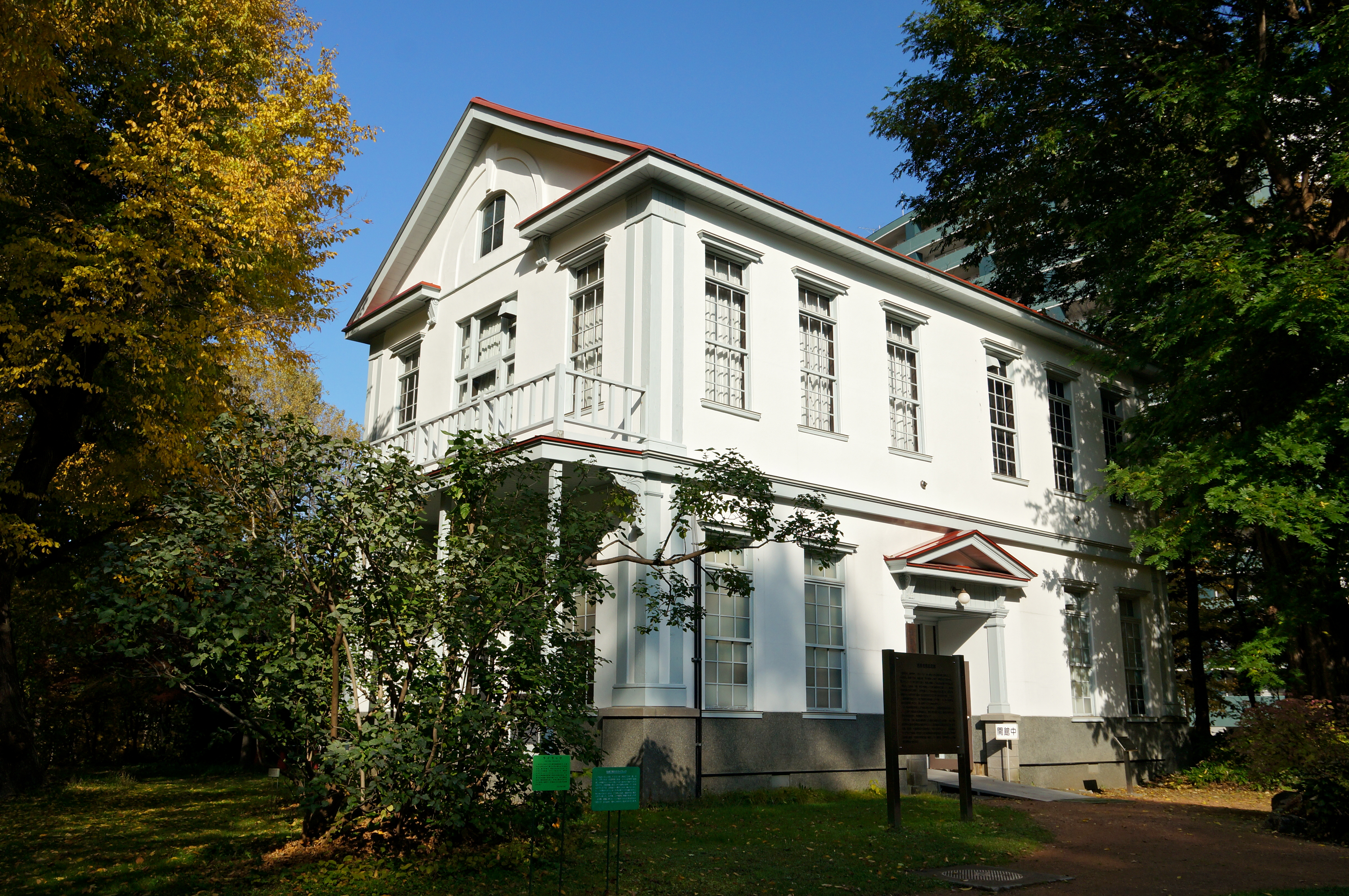 At Hokkaido University Botanical Gardens in Sapporo, Hokkaido prefecture, Japan.